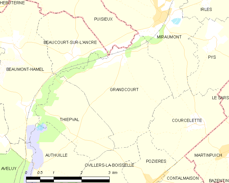 Map of French municipality Grandcourt